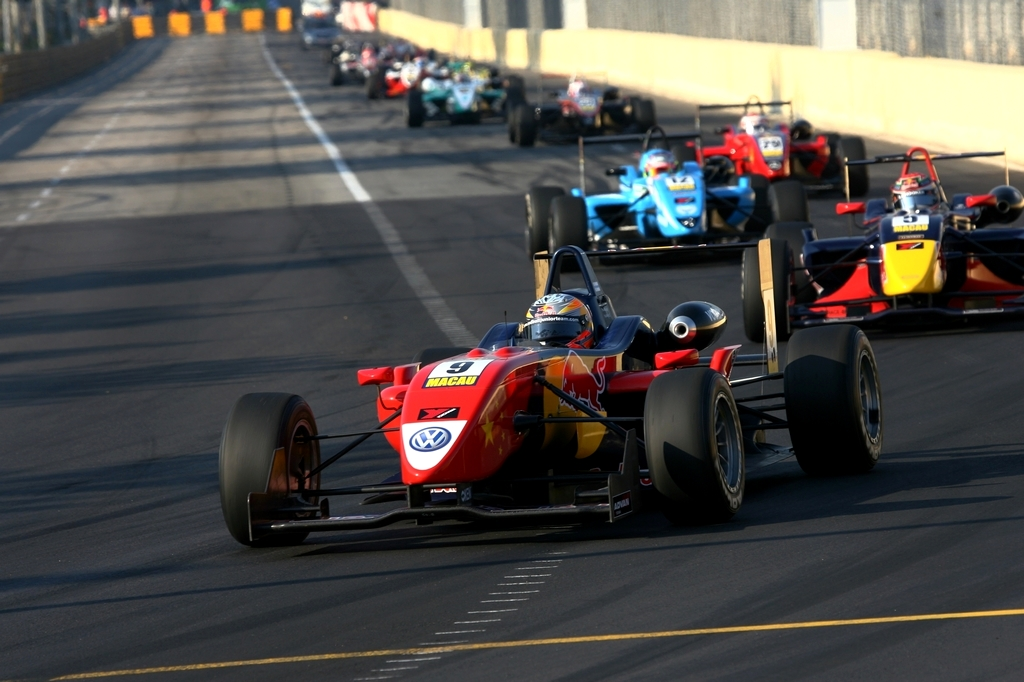 2008 Macau F3 Grand Prix in progress. #9 Mika Maki (Signature Plus) and #5 Brendon Hartley (Carlin Motorsport).